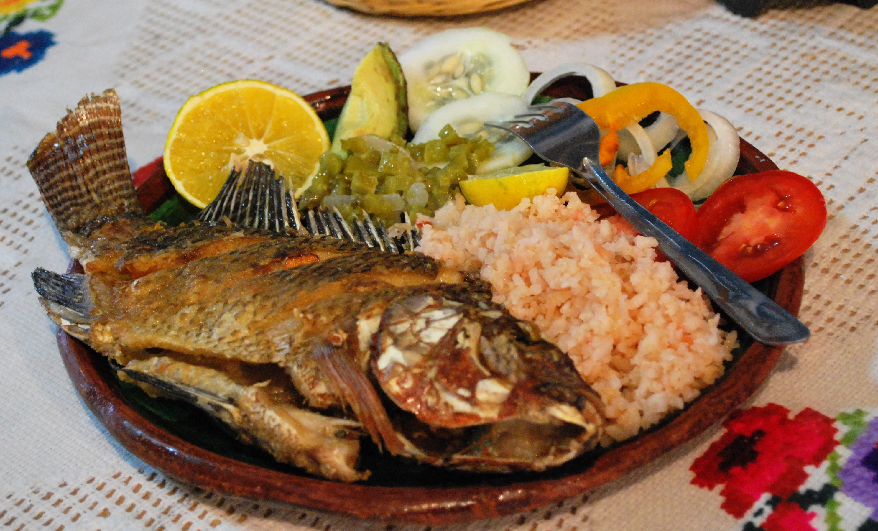 Fried mojarra fish served with nopales beans etc served at a restaurant in Janitizio Island, Michocan